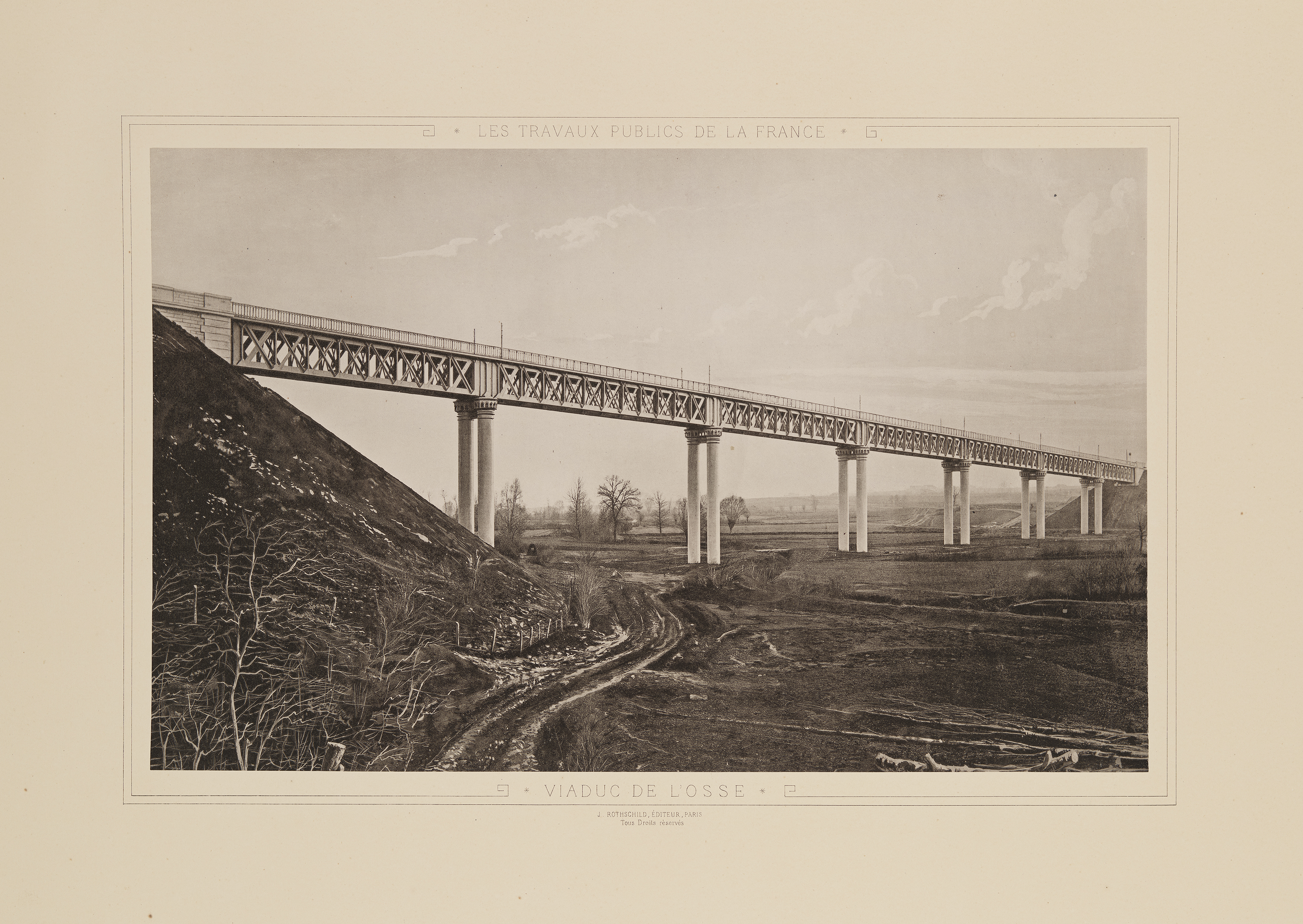 Title: Viaduc de l'Osse Alternative Title: Osse Viaduct Creator: Delon, Eugene Date: 1883 Part Of: Les Travaux Publics de la France, Tome Deuxieme: Chemins de Fer Place: Osse-en-Aspe, Pyrenees-Atlantiques, France Physical Description: 1 photographic print: collotype; 26 x 35 cm on 40 x 56 cm mount File: vault_folio_2_ta71_a4_1883_2_47_opt.jpg Rights: Please cite Southern Methodist University, Central University Libraries, DeGolyer Library when using this image file. A high-quality version of this file may be obtained for a fee by contacting . For more information, see